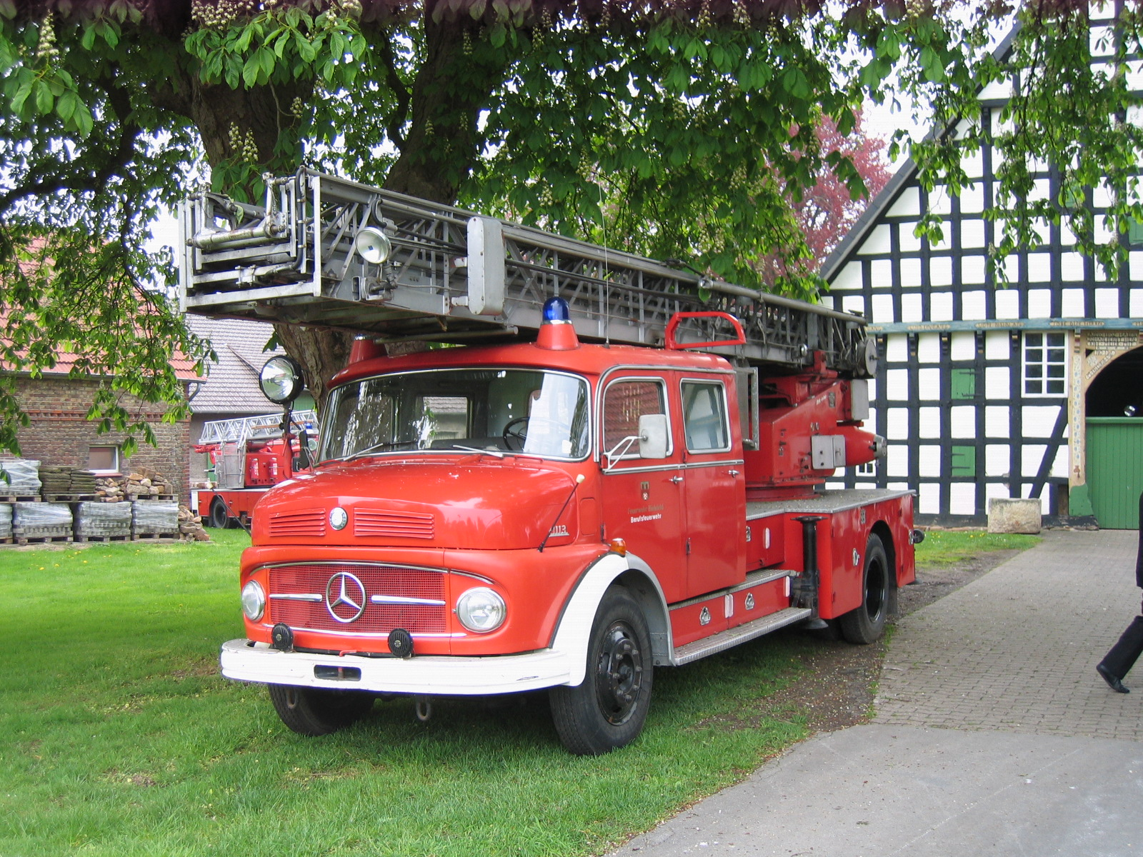 Museum of firefighting in Kirchlengern-Häver, County of Herford, North Rhine-Westphalia, Germany.